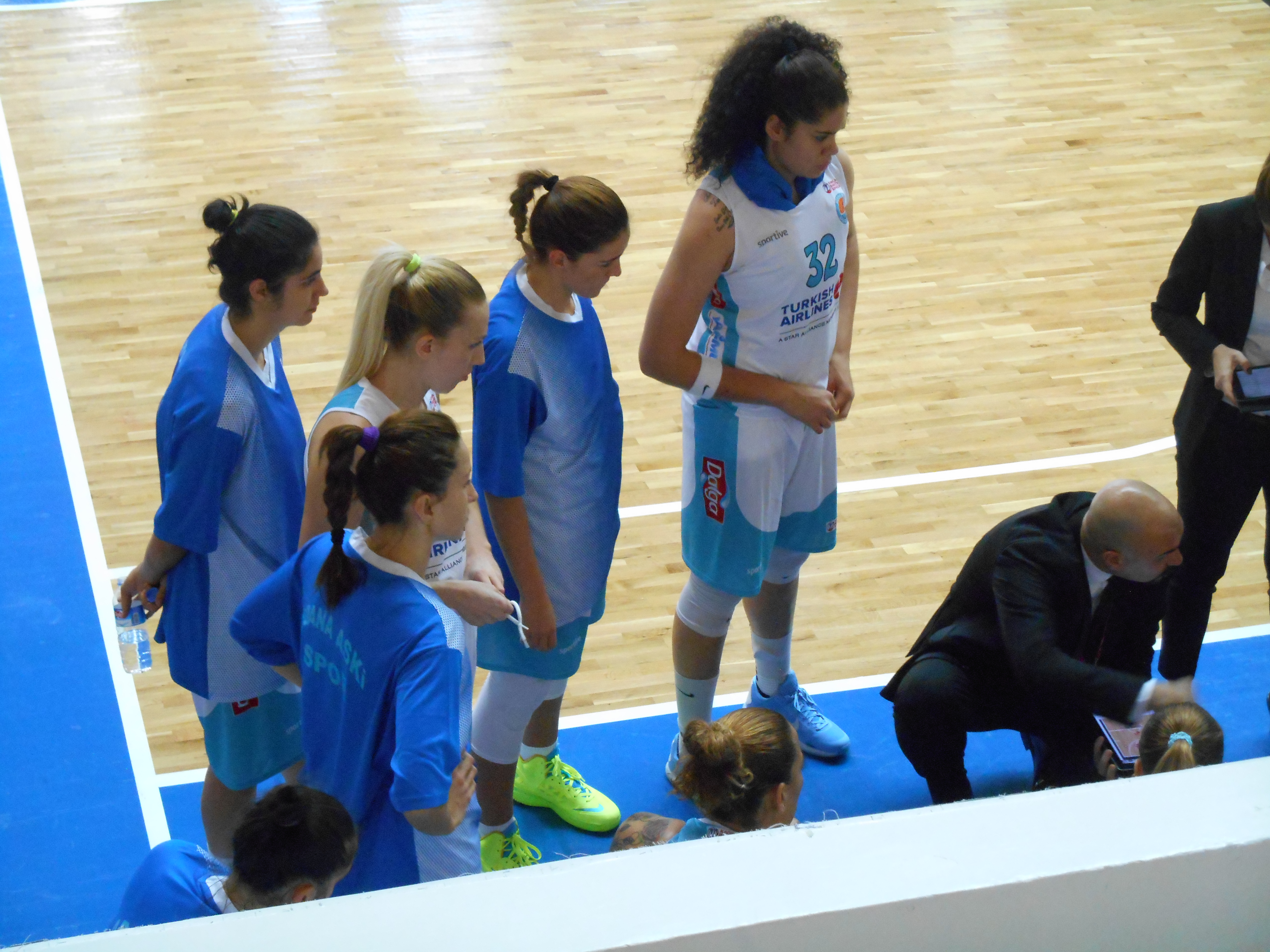 Adana Aski prior to the game